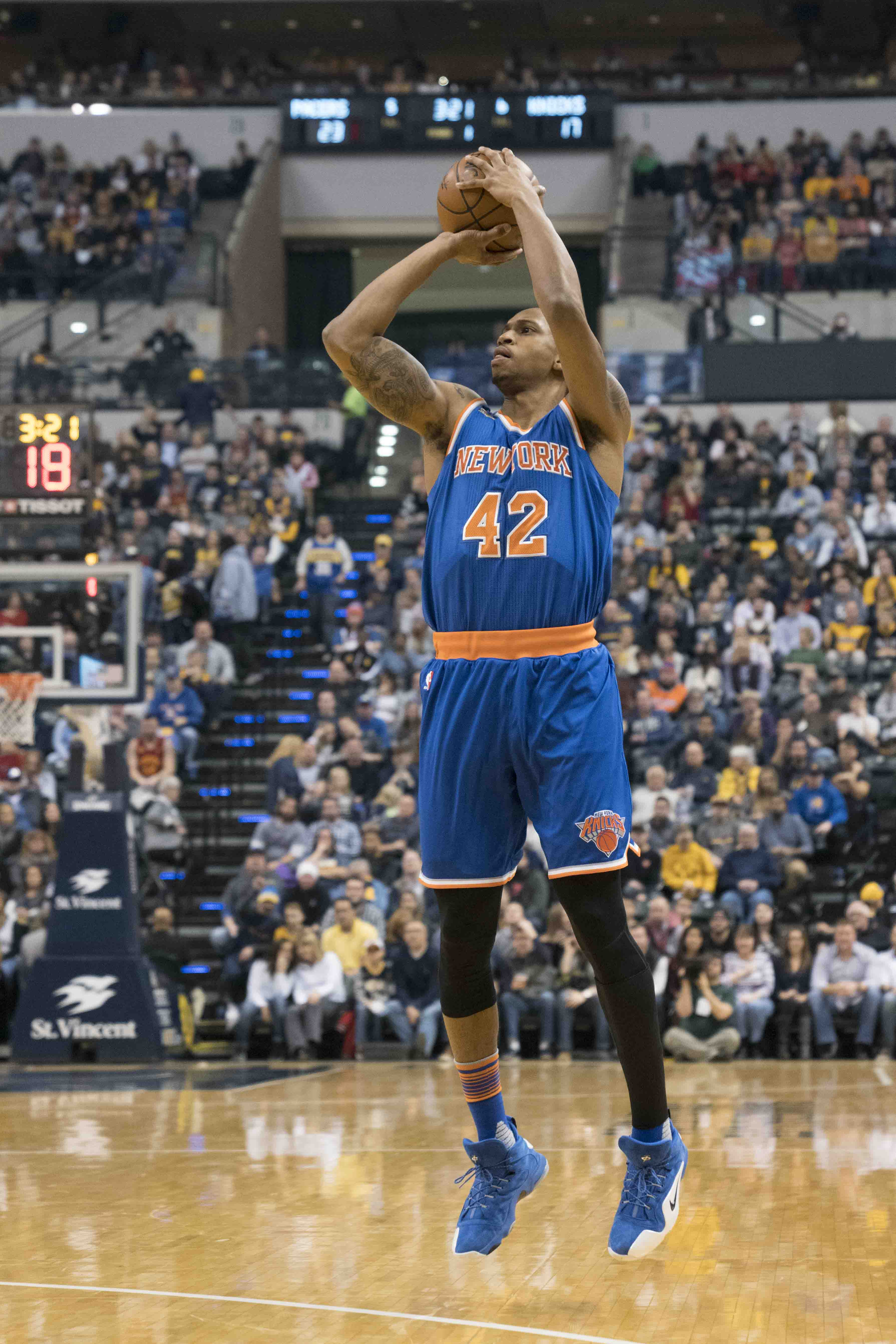 Lance Thomas, New York Knicks vs Indiana Pacers, January 7, 2017